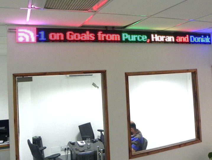 A Sports Ticker installed indoor in a office floor, displaying sports highlights.